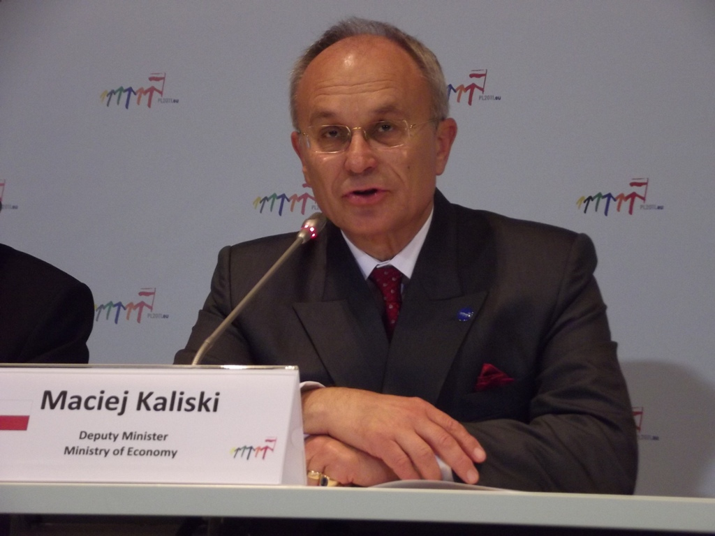 Zdjęcie zrobione podczas konferencji "Konkurencyjny i zintegrowany rynek, jako gwarant bezpieczeństwa energetycznego UE", która odbyła się w Krakowie w ramach polskiej prezydencji w Radzie UE.